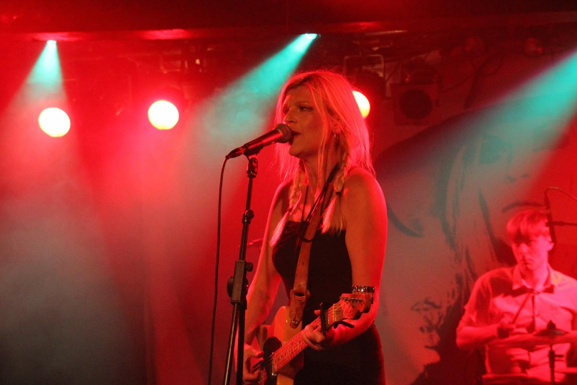 Kajsa Grytt on Debaser (Slussen, Stockholm, Sweden) 24 May 2011